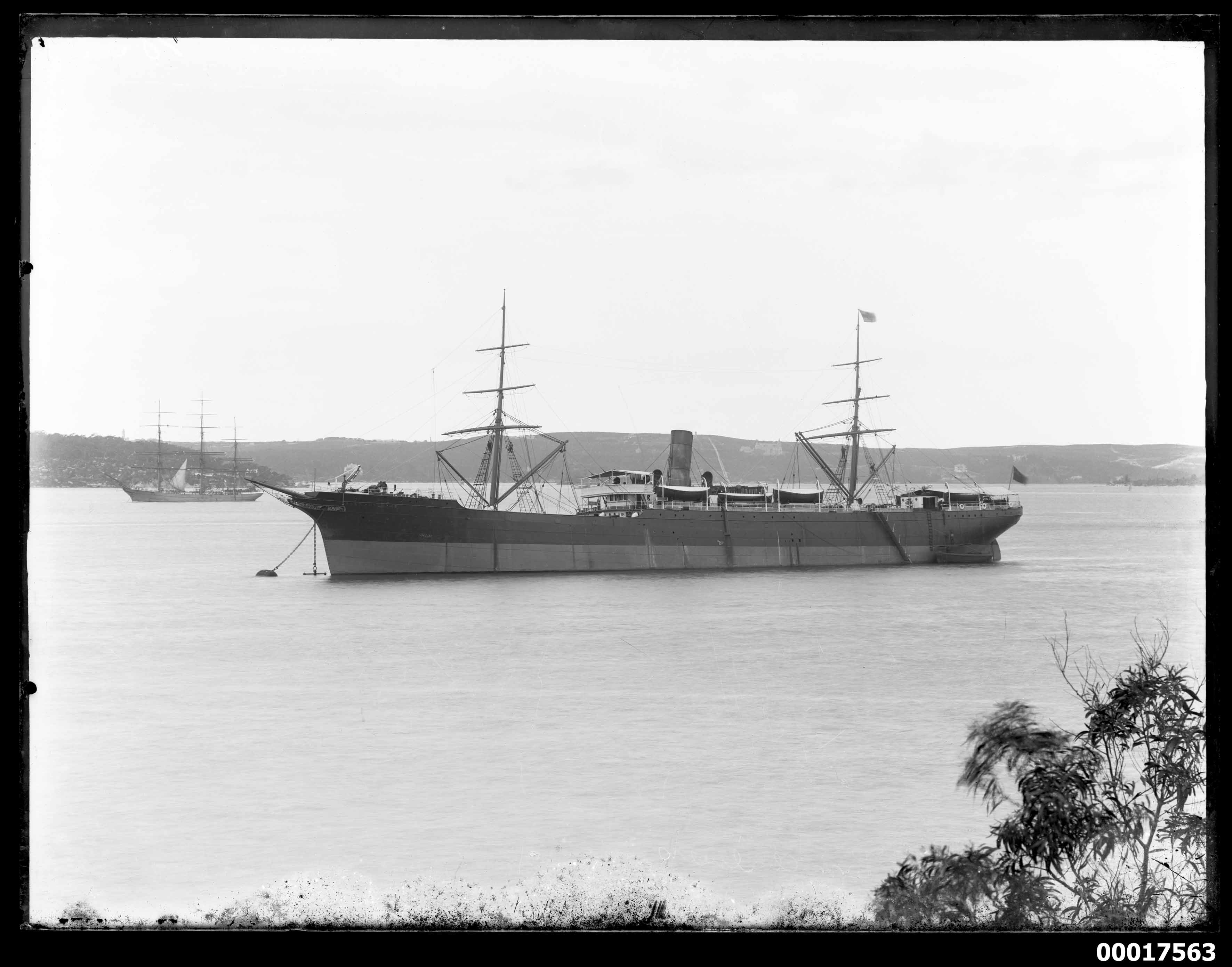 This photo is part of the Australian National Maritime Museum’s collection. If reproduced or distributed, this image should be clearly attributed to the collection of the Australian National Maritime Museum; and not be used for any commercial or for-profit purposes without the permission of the museum. For more information see our Flickr Commons Rights Statement. The Australian National Maritime Museum undertakes research and accepts public comments that enhance the information we hold about images in our collection. If you can identify a person, vessel or landmark, write the details in the Comments box below. Thank you for helping caption this important historical image. Object number 00017563